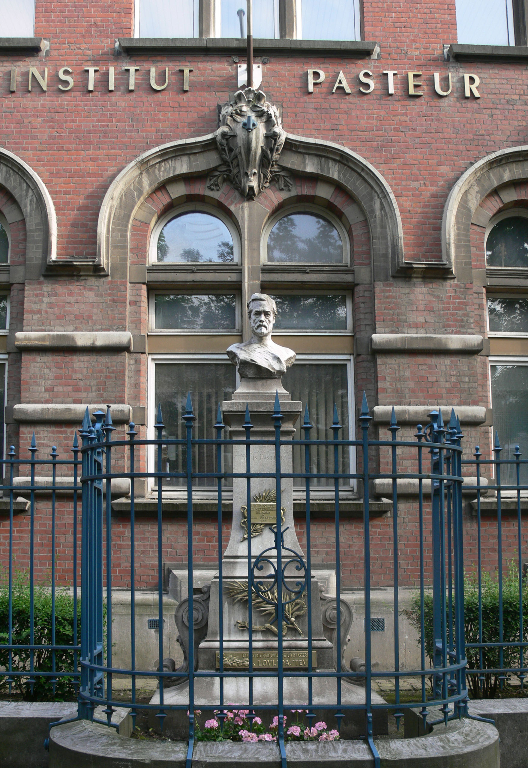 On the same monument (made at the foot of the façade of the building of the Pasteur Institute of Lille in northern France), are two bronze plaques, respectively the lower level and upper stone monument bearing a bust of Louis Pasteur (white marble) the first one says : "Tribute members of the association of chemists and sugar distilleries in congress meeting in Lille on 8, 9 and 10 July 1901" («Hommage des membres de l'association des chimistes de sucreries et distilleries réunis en congrès à Lille les 8, 9 et 10 juillet 1901»). It is a commemorative plaque offered to Louis Pasteur by the regional industry of the brewery in 1901 ; the second one says : The company vets ot north to North Louis Pasteur, 1922 (La société des vétérinaires du Nord à Louis Pasteur, 1922)